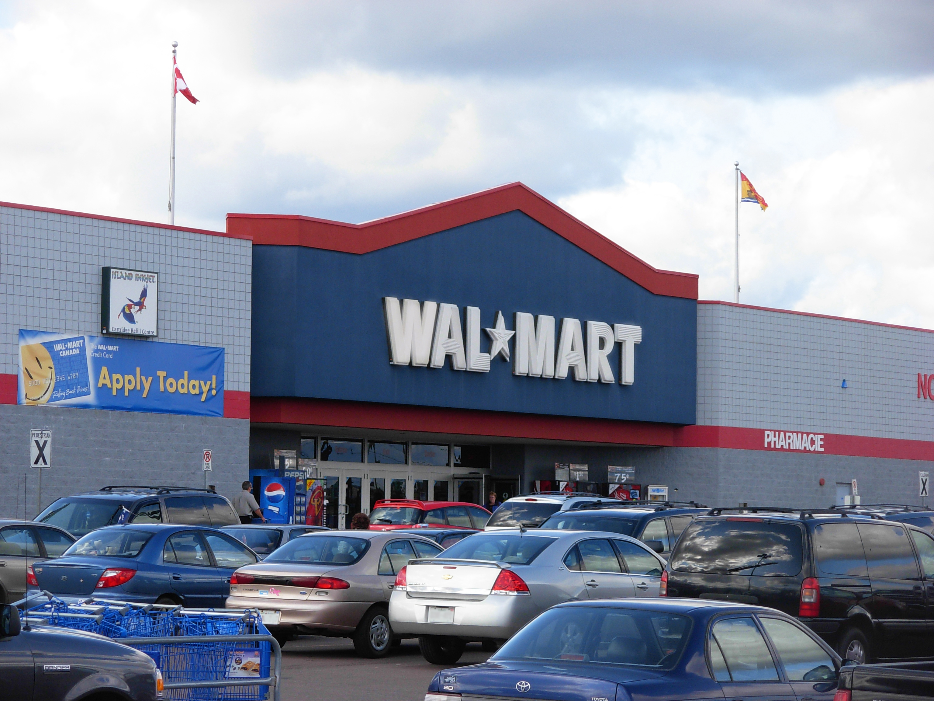 Wal-Mart location in Moncton